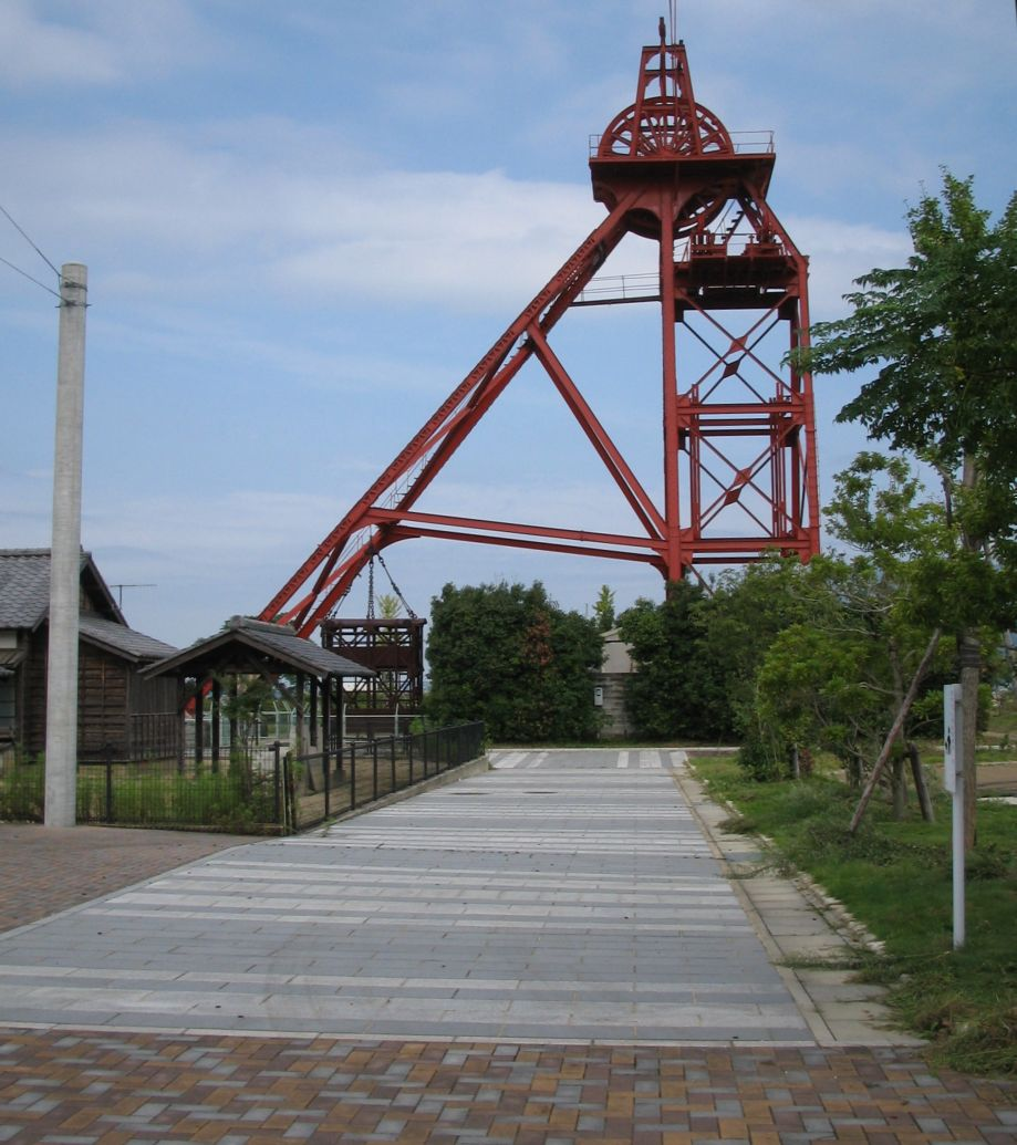 Headframe at the Coal-mining Memorial Park in Tagawa City.